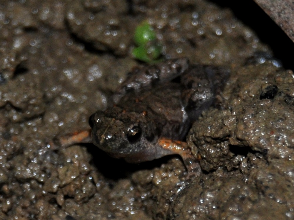 Palmated Chorus Frog, Microhyla palmipes, male, from paddyfield in Karawang, West Java, Indonesia. Front view.